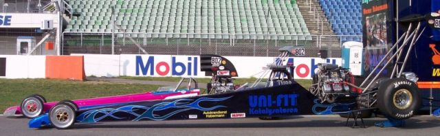 Dragster